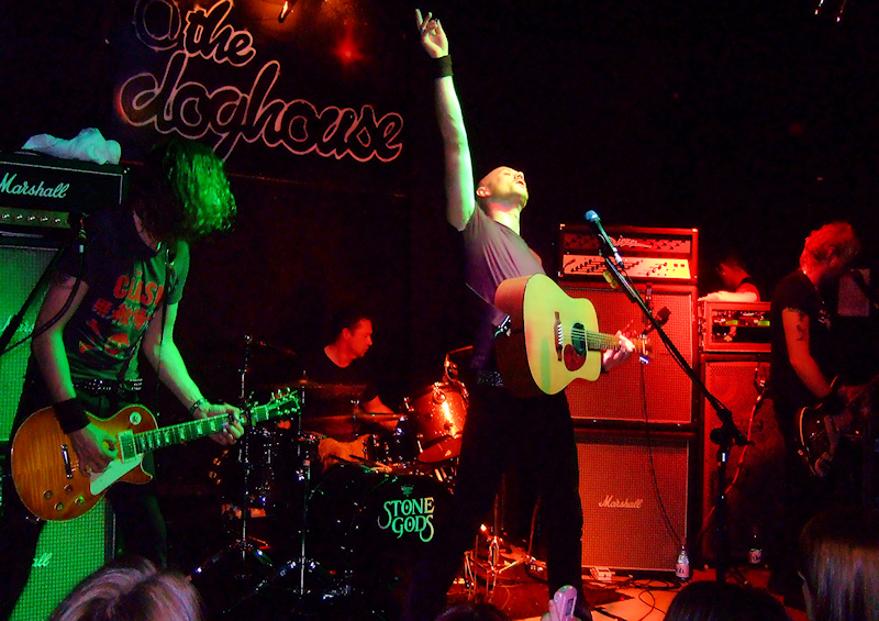 The Stone Gods at the Dundee Doghouse